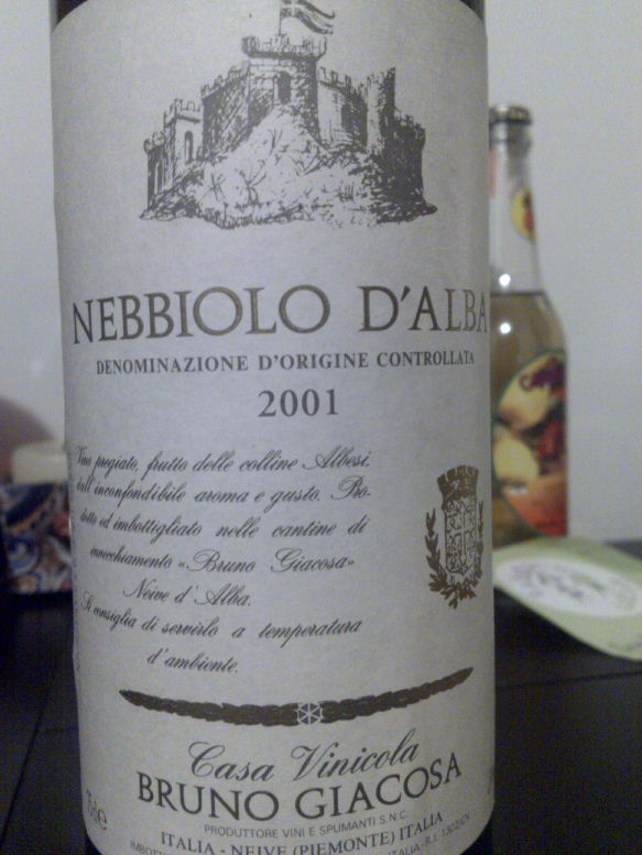 Bottle of Bruno Giacosa Nebbiolo d'Alba 2001, taken with a Nokia N96.